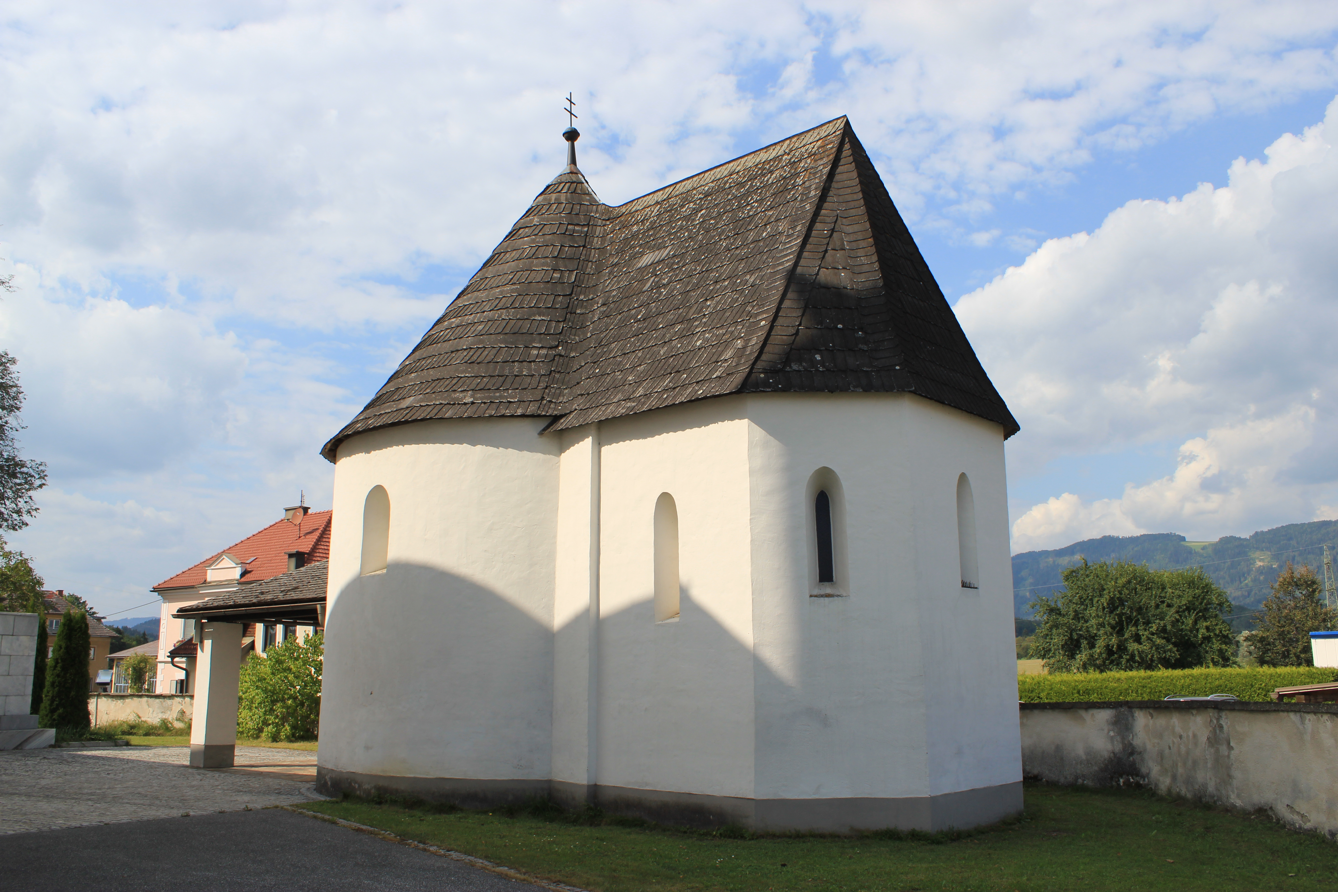 Ossuary in Sankt Ruprecht in Völkermarkt